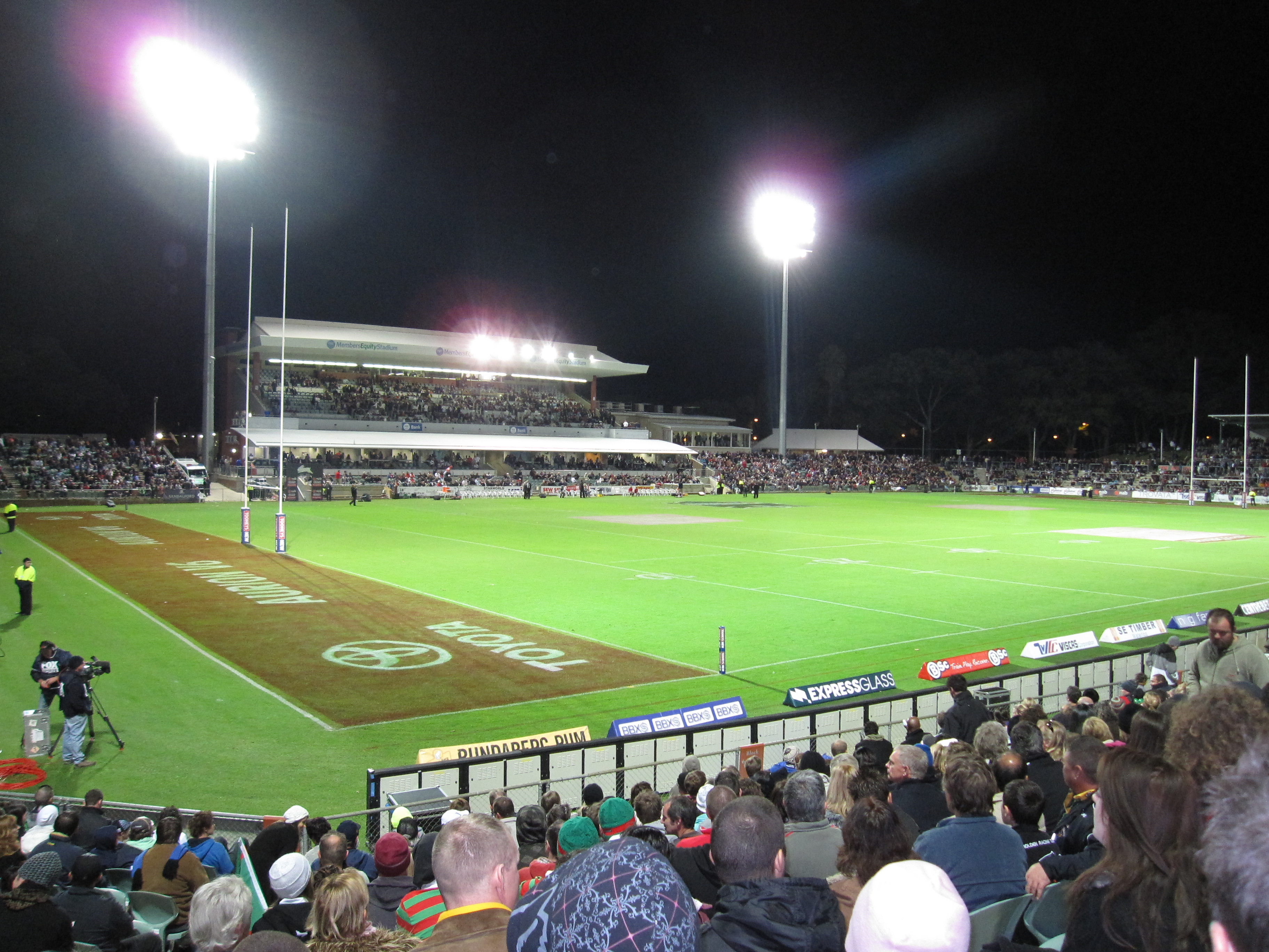 South Sydney Rabbitohs vs Melbourne Storm at ME Bank Stadium